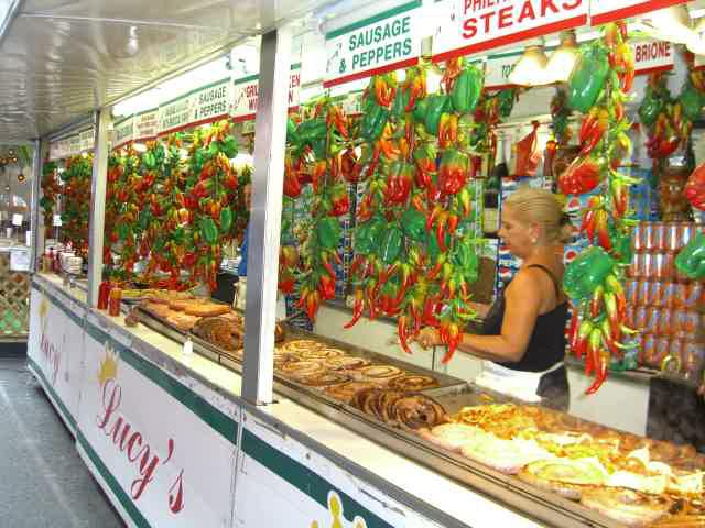 Food stand on Mulberry Street in Manhattan's Little Italy during the 2006 Feast of San Gennaro. Photo taken September 19, en:2006 by Nightscream.